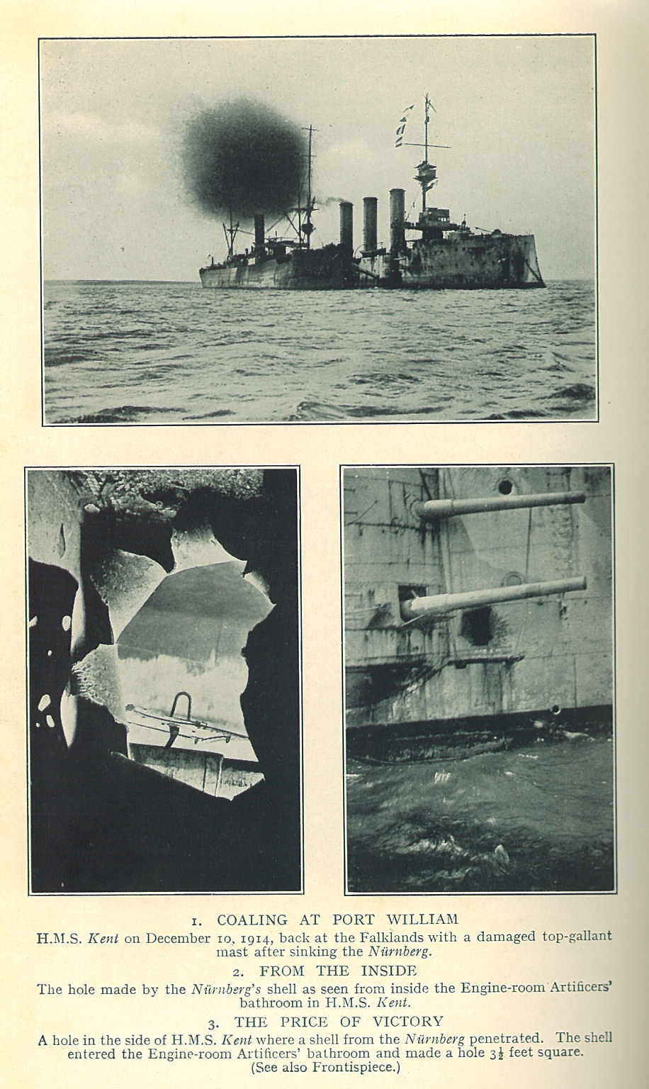 Images of the Battle of the Falklands of 1914